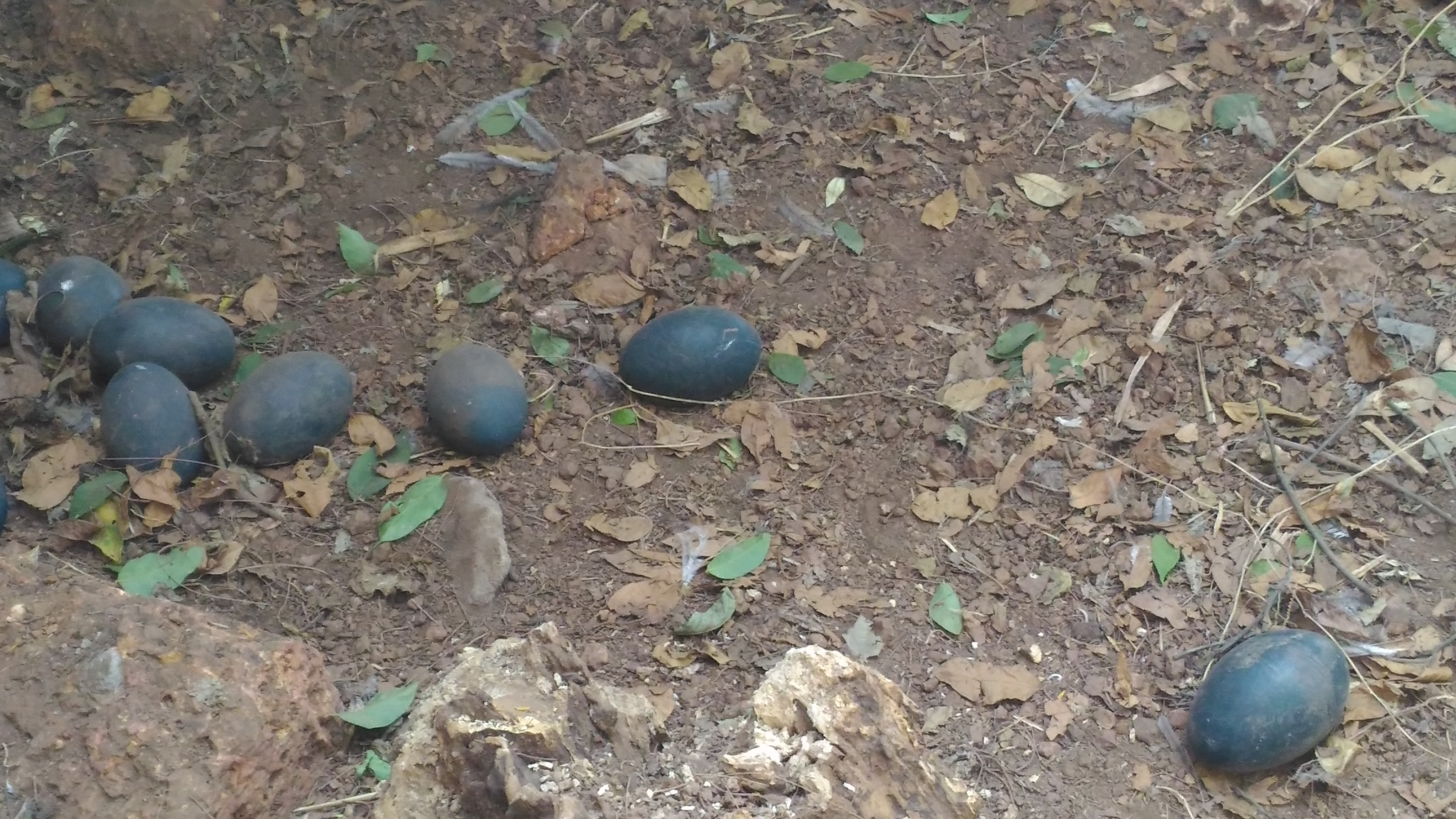 Dromaius novaehollandiae eggs from the Snake Park parassinikadavu